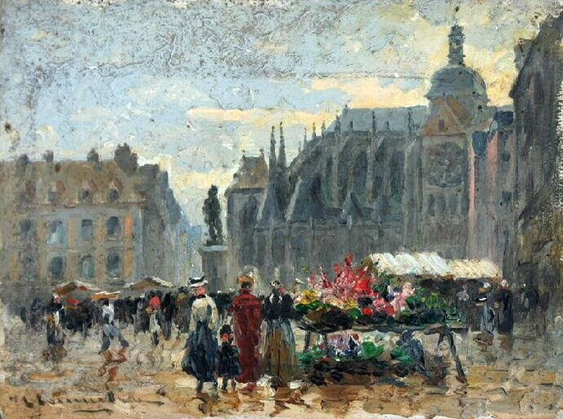 La place Nationale à Dieppe